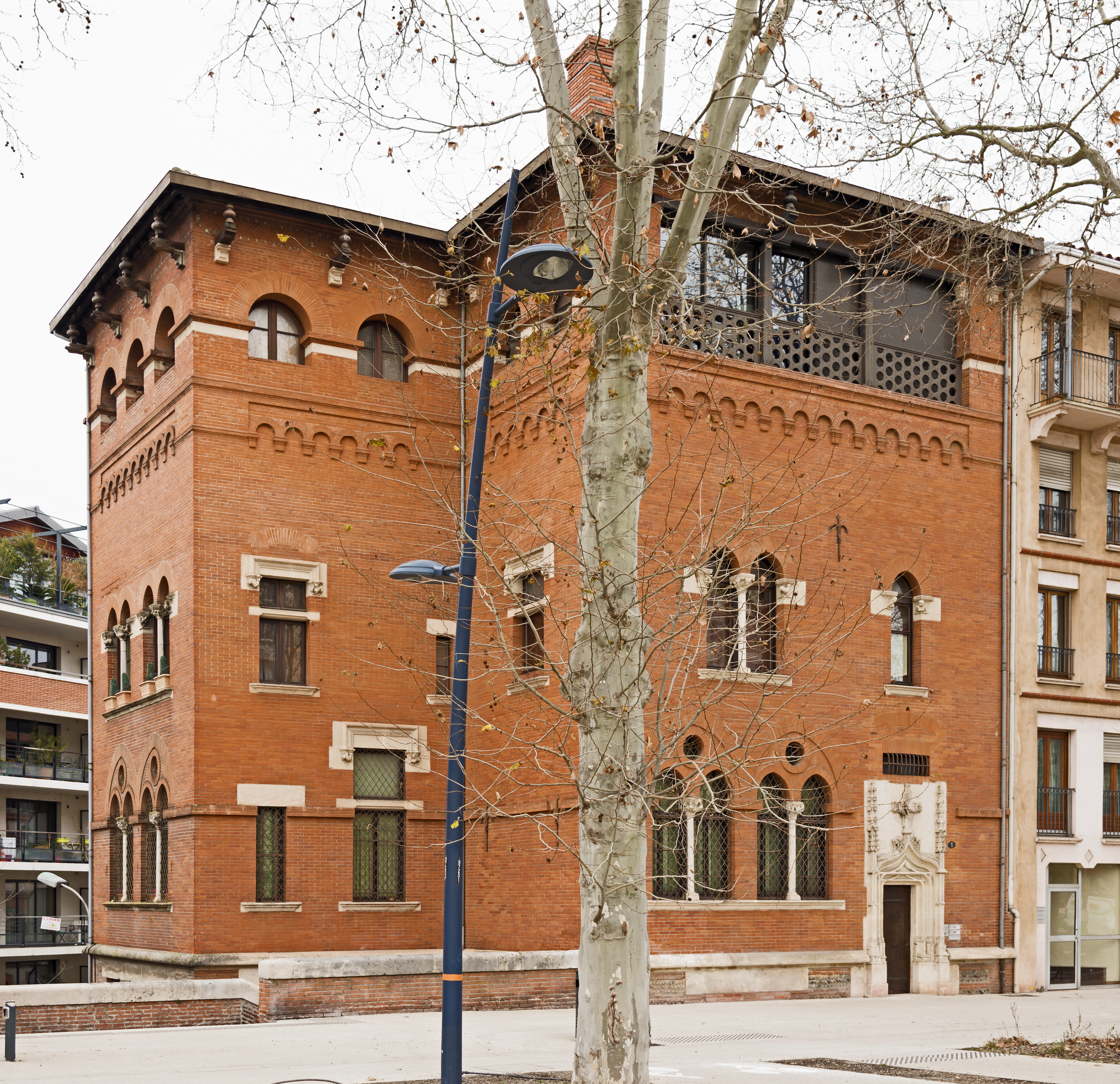 Building Seube - Facade